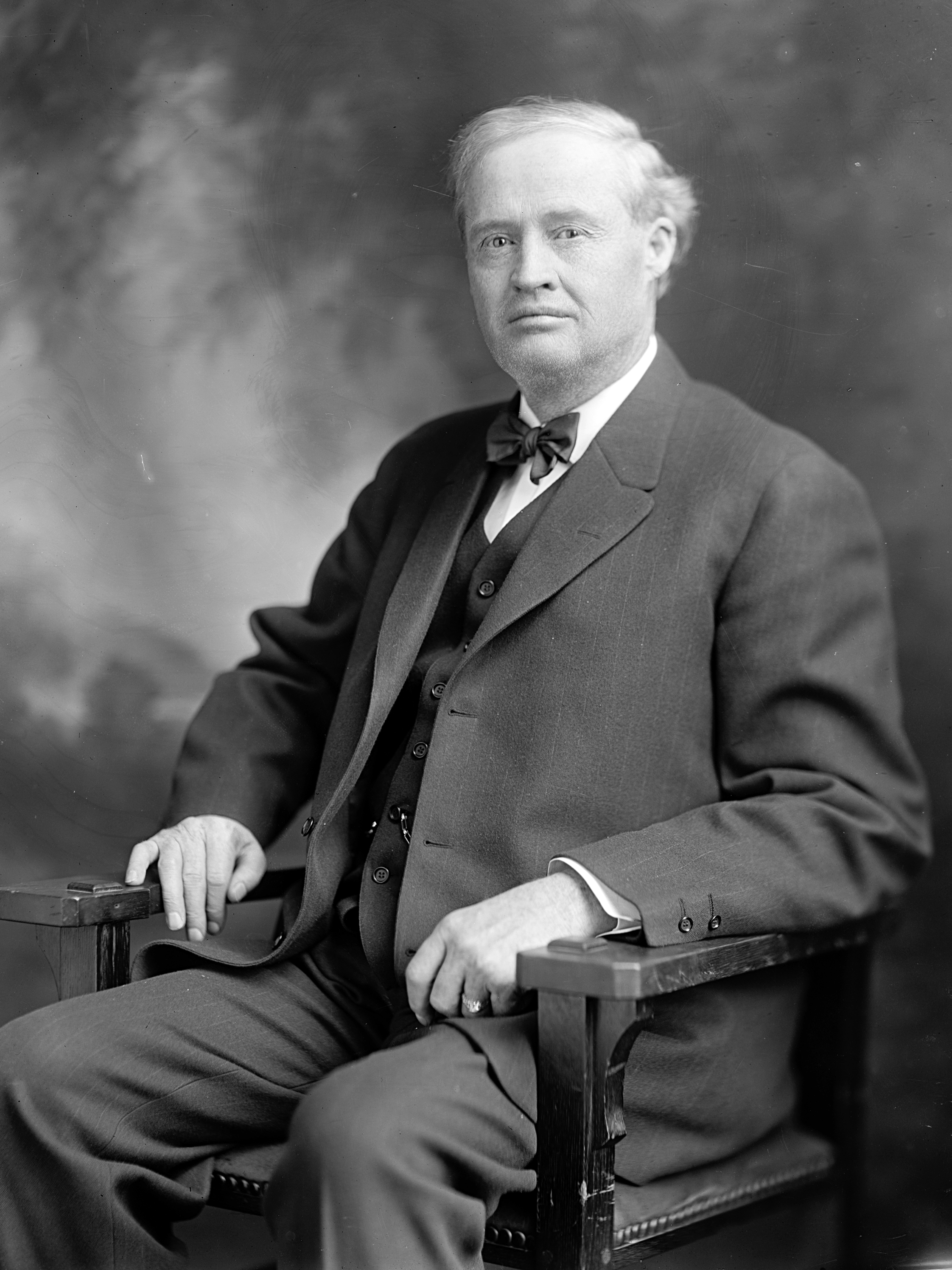 Walter R. Stubbs, Governor of Kansas